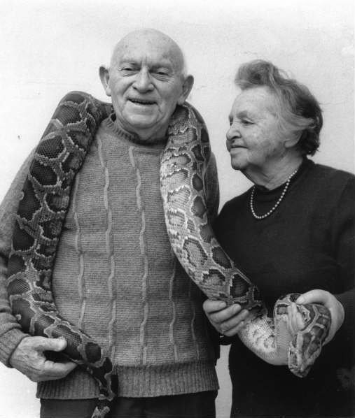 Aharon Shulov and his wife, Jochebed